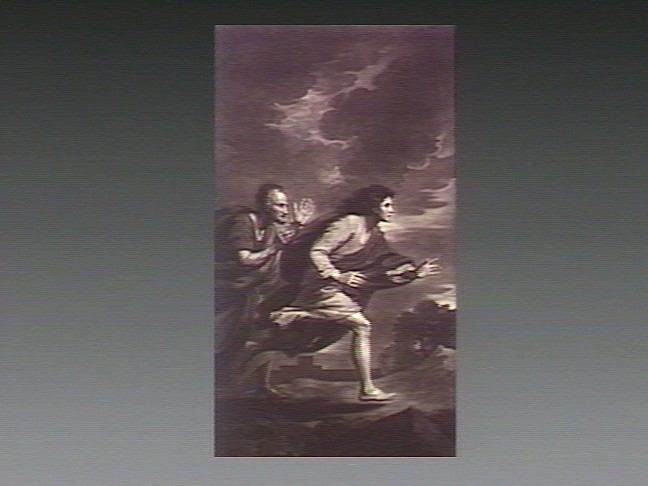 Peter and John run to the tomb of Christ. Mezzotint by V. Green, 1784, after B. West. Iconographic Collections Keywords: Benjamin West; Jesus Christ; Peter; John; Valentine Green